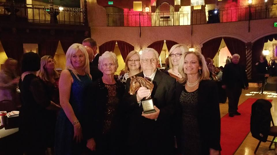 Ken Barlow and Indiana Horseman Hall Of Fame Award